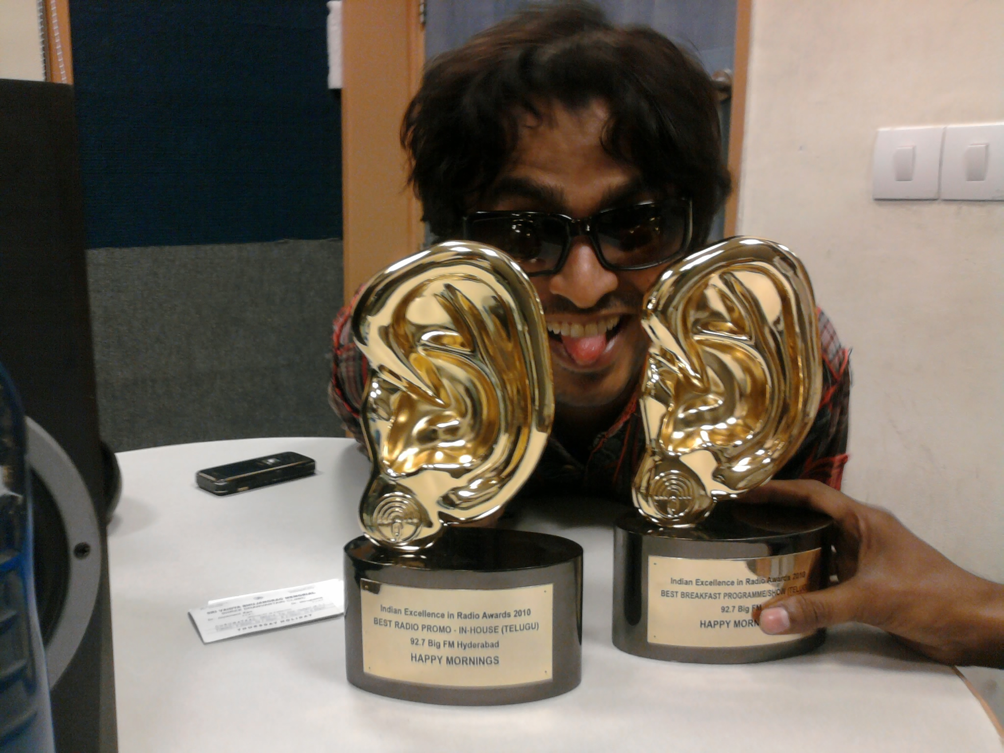 Yet again for the 4th consecutive year, RJ shekar won 2 IRF awards for 2010.